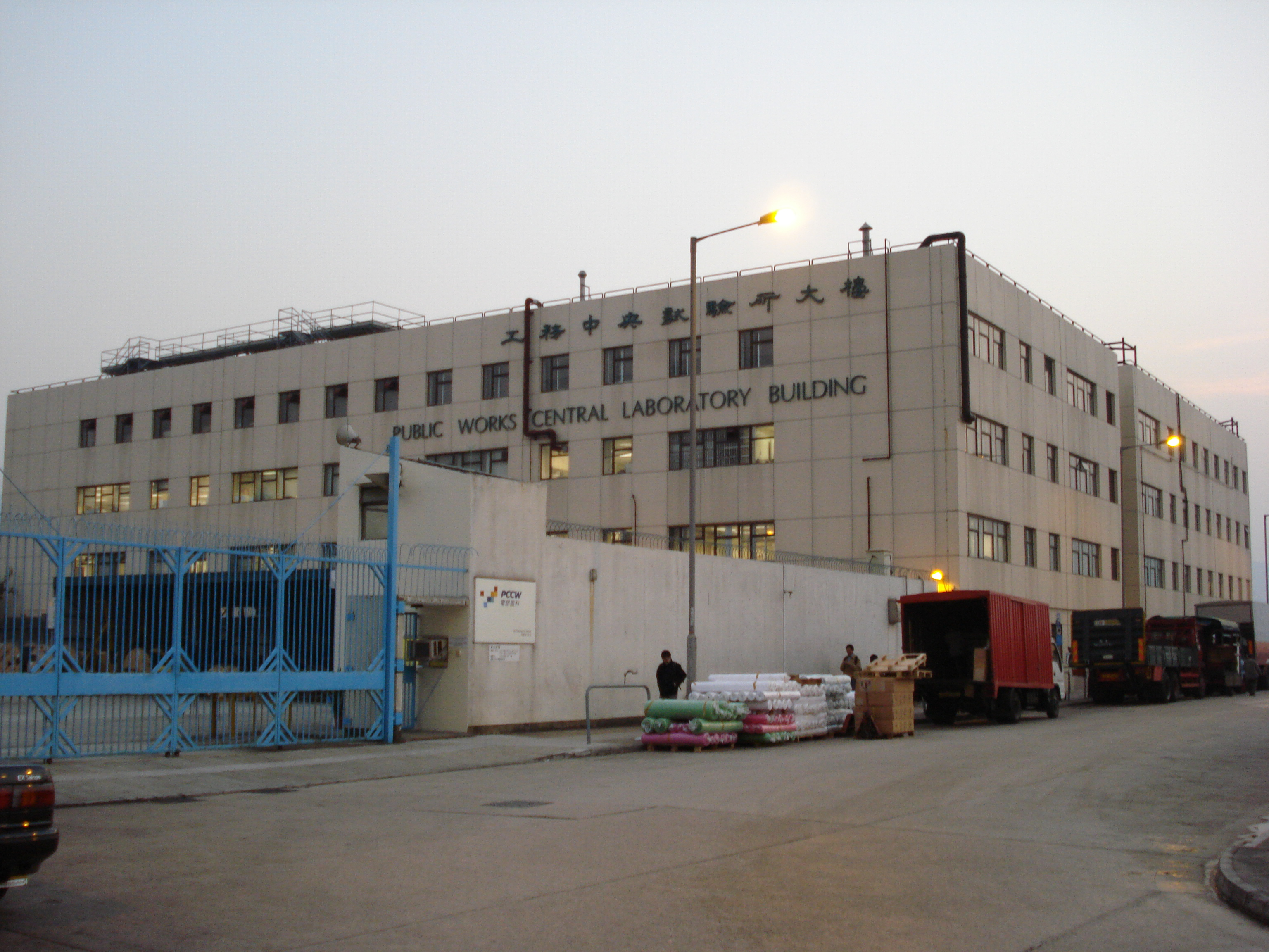 Central Laboratory, Hong Kong